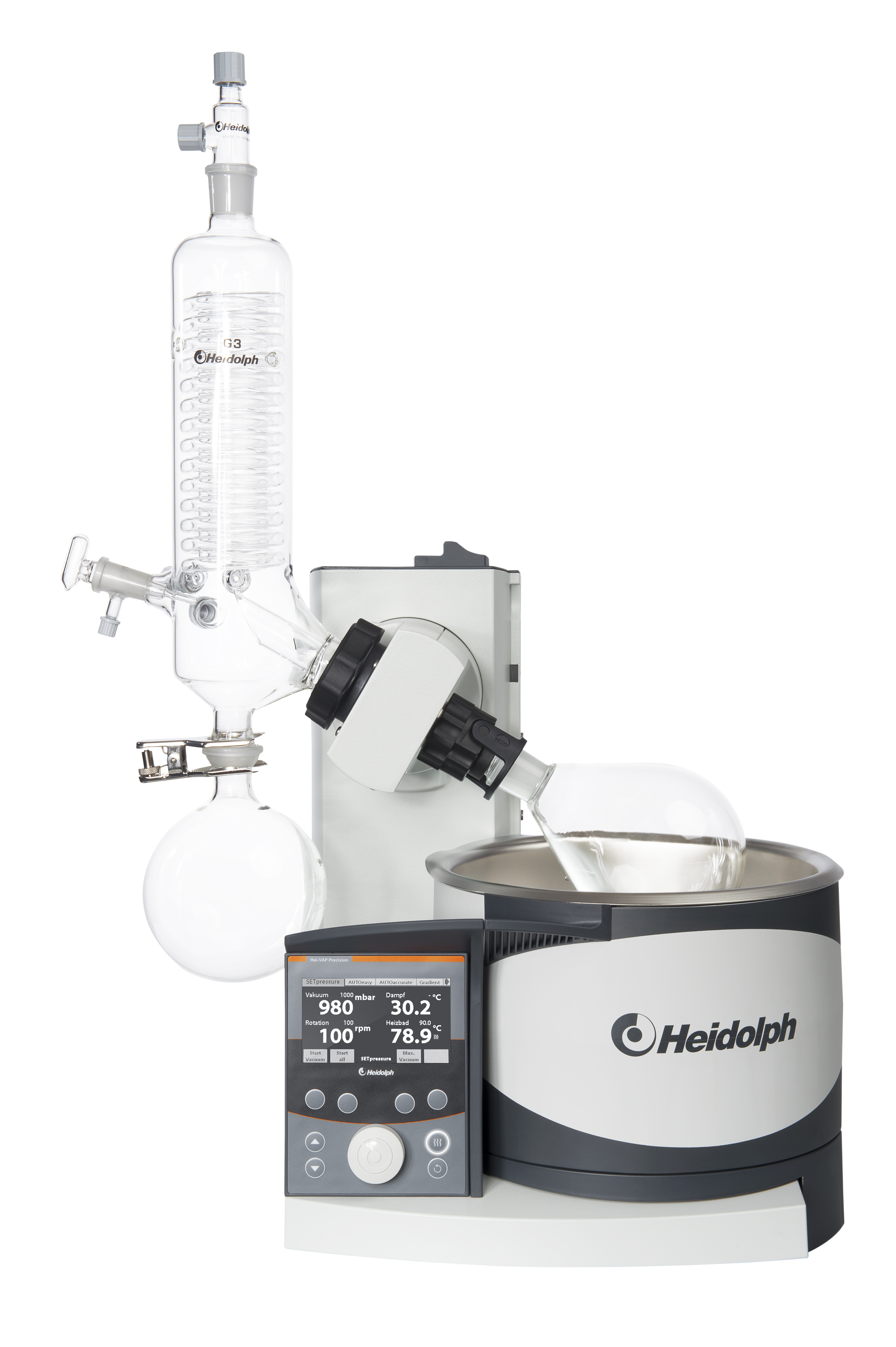 Rotary Evaporator